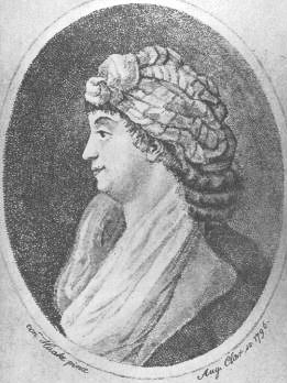 Portrait of the 18th century singer Josepha Duschek